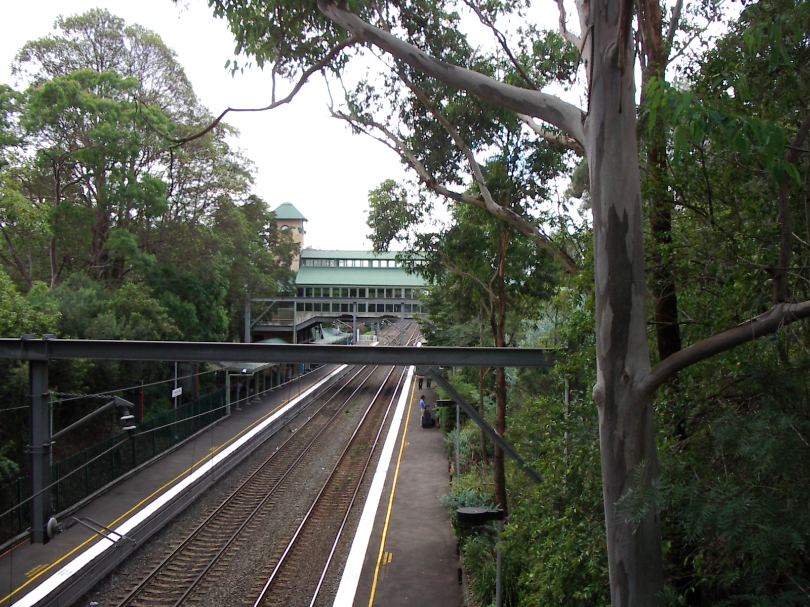 Photograph of Pennant Hills railway station, Sydney, taken from a nearby road overpass, looking north. Photo was taken by Saberwyn